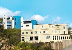 EF Academy Torbay Campus